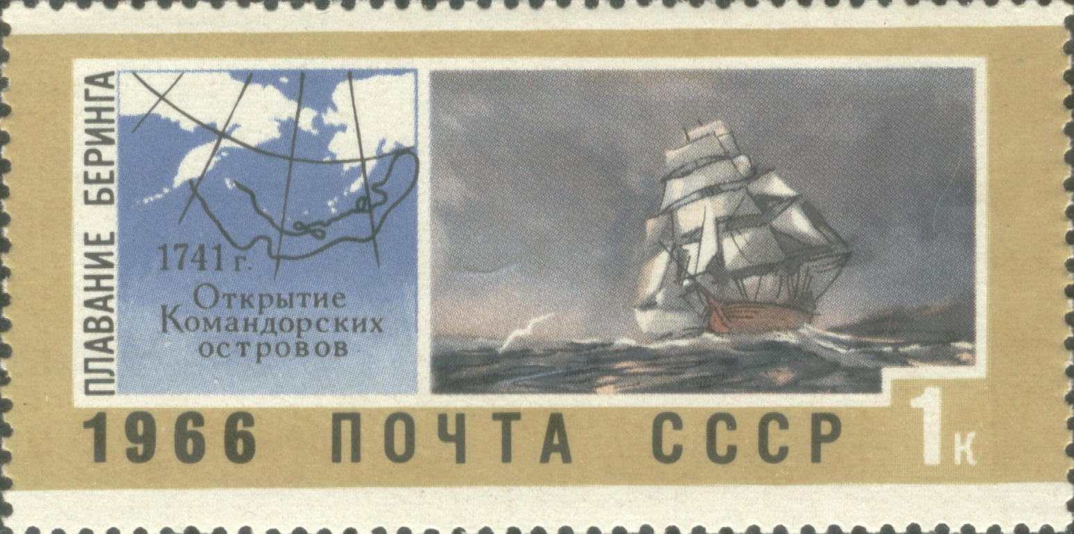 A USSR stamp